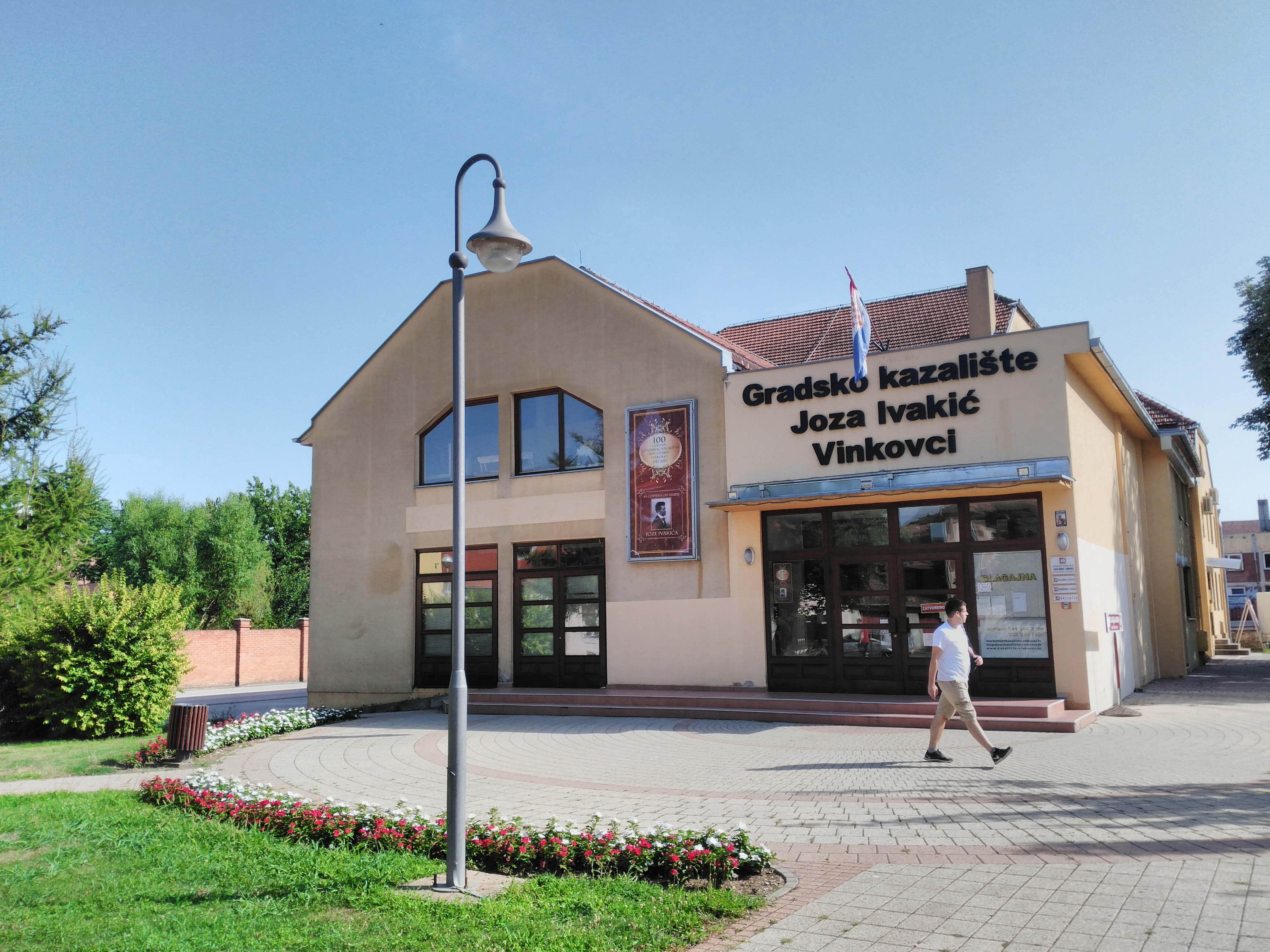 City theater Vinkovci